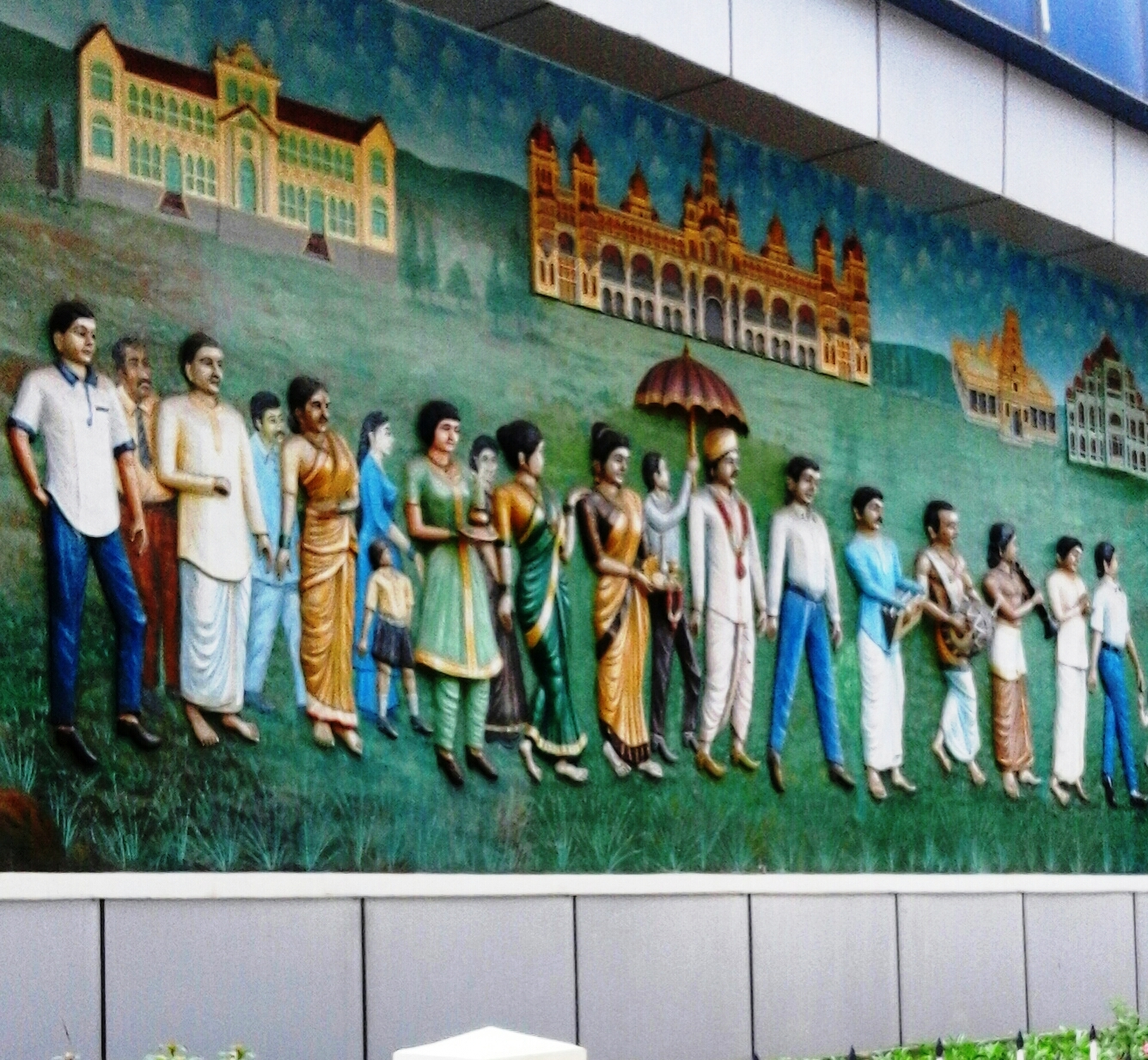 Mural on Chikka Manakathur Auditorium, Gagana chumbi Double Road, Kuvempu Nagar, Mysore, Karnataka, India.